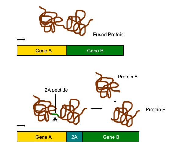 An illustration of 2A peptide function: when the CDS of a 2A peptide is inserted between two CDSs of protein, the peptide will be cleaved into two proteins folding independently.